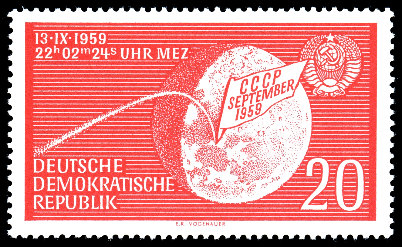 Ausgabepreis: 20 Pfennig First Day of Issue / Erstausgabetag: 21.9.1959 Auflage: 6.000.000 Entwurf: Vogenauer Druckverfahren: Offsetdruck Michel-Katalog-Nr: Ländercode-MiNr: 721 Licensing This file is most likely NOT in the public domain. It has been marked for review, and will be deleted in due course if the review does not find it to be in the public domain. This file was previously considered to be in the public domain as a German stamp; it is possible that it is in the public domain for other reasons, in which case a new rationale will be applied as part of the review process. See below for the previous rationale. Previous public domain rationale, no longer applicable This stamp is in the public domain in Germany because it was released by the postal administration of the German Democratic Republic or the Soviet occupation zone (Deutschen Post der DDR) whose legal successor is the Federal Republic of Germany. Thus it is an official work according to German copyright law (§ 5 Abs. 1 UrhG).